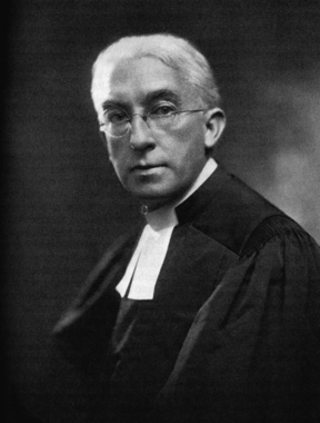 portrait of Bishop Robert Livingston Rudolph